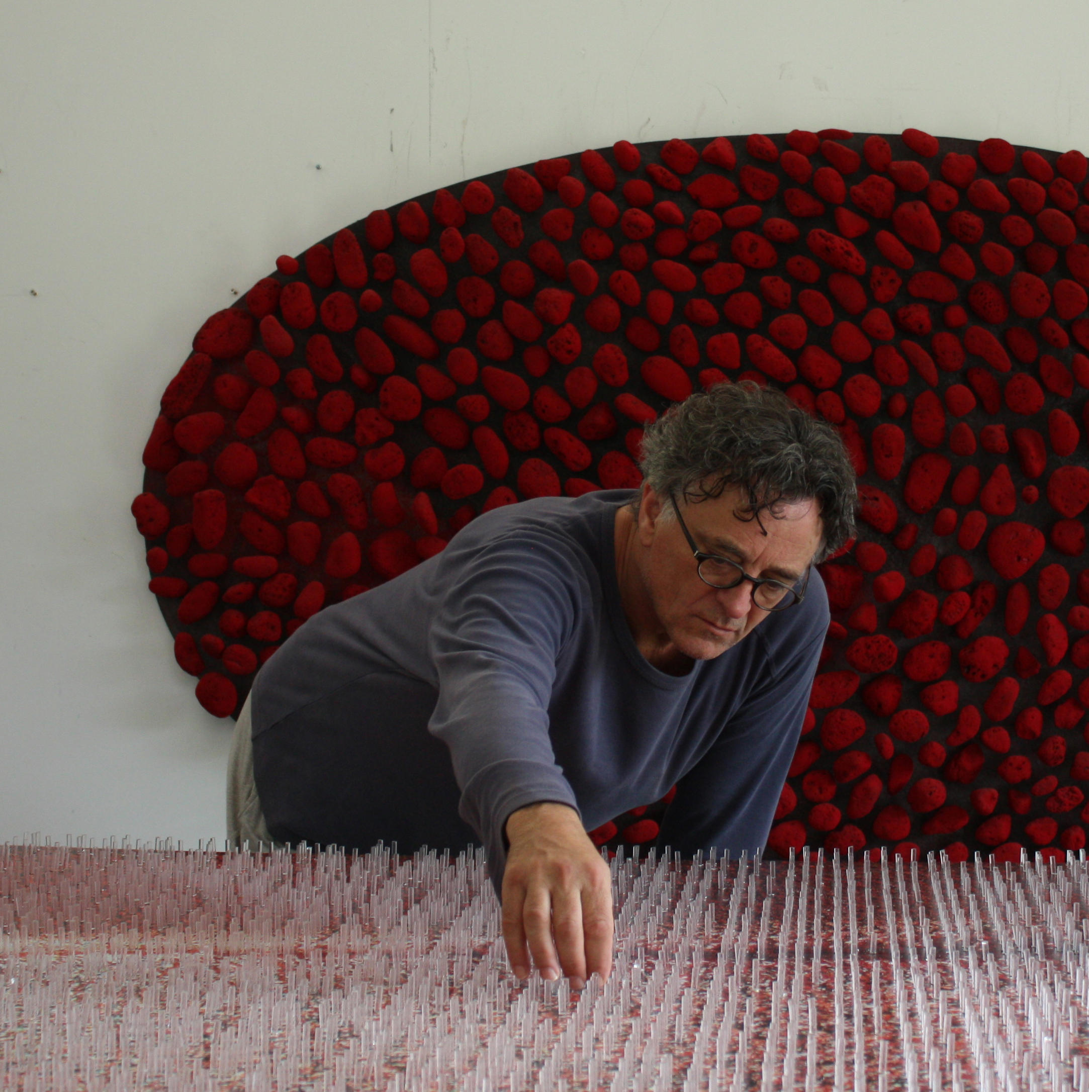 Peter at his studio in 2013